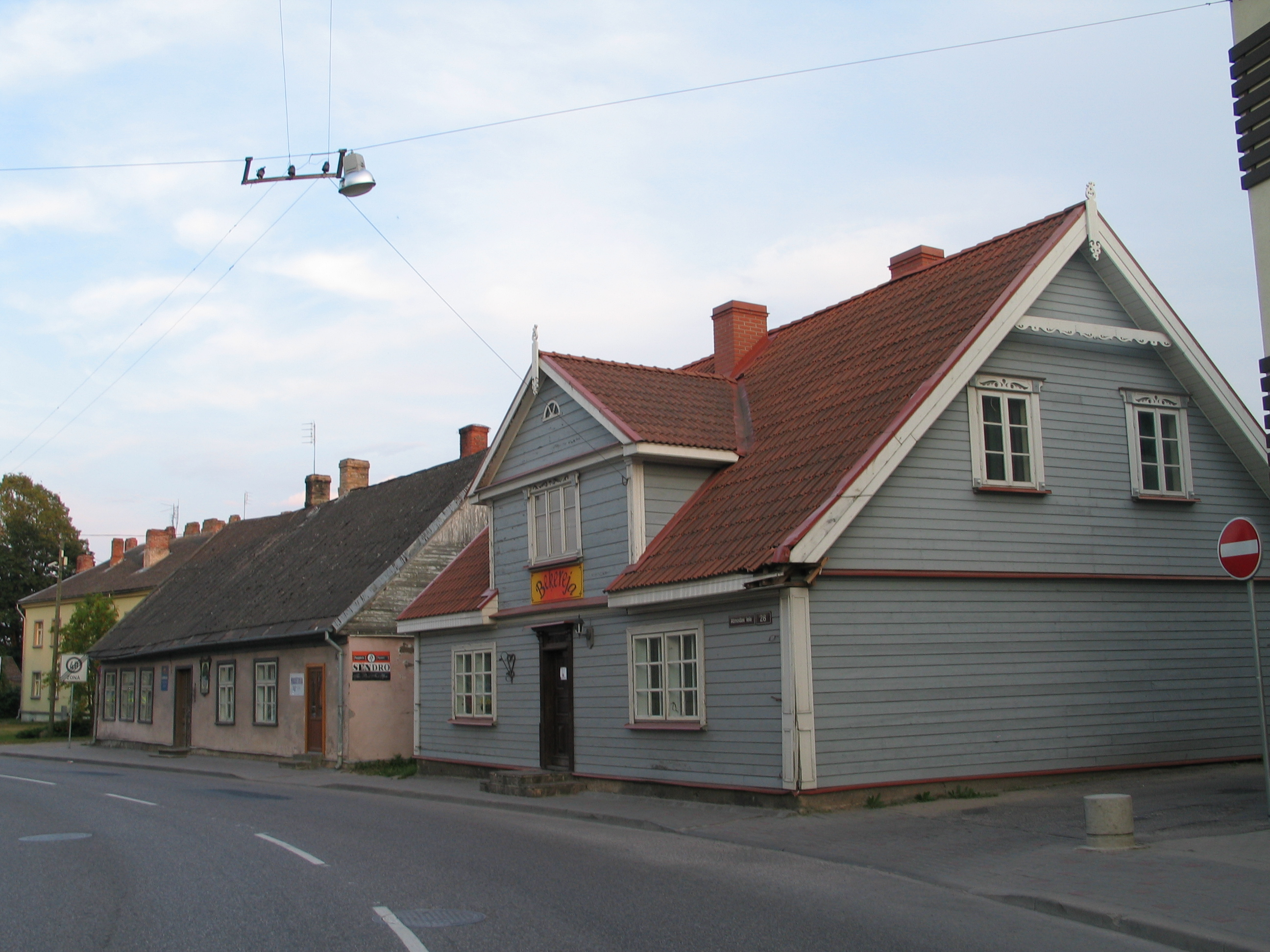 Atmodas street (Aizpute)